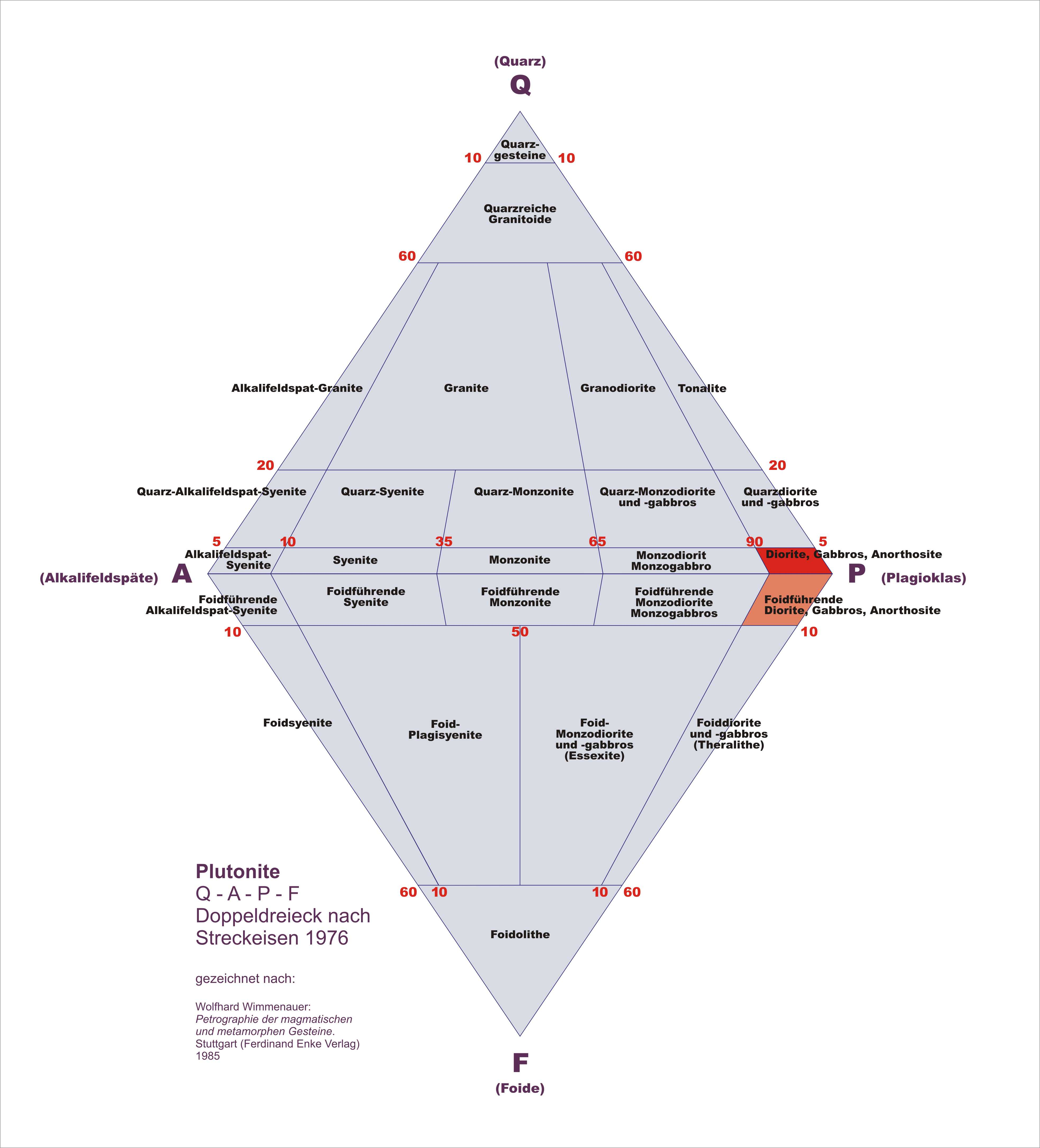 QAPF diagram, Anorthosite